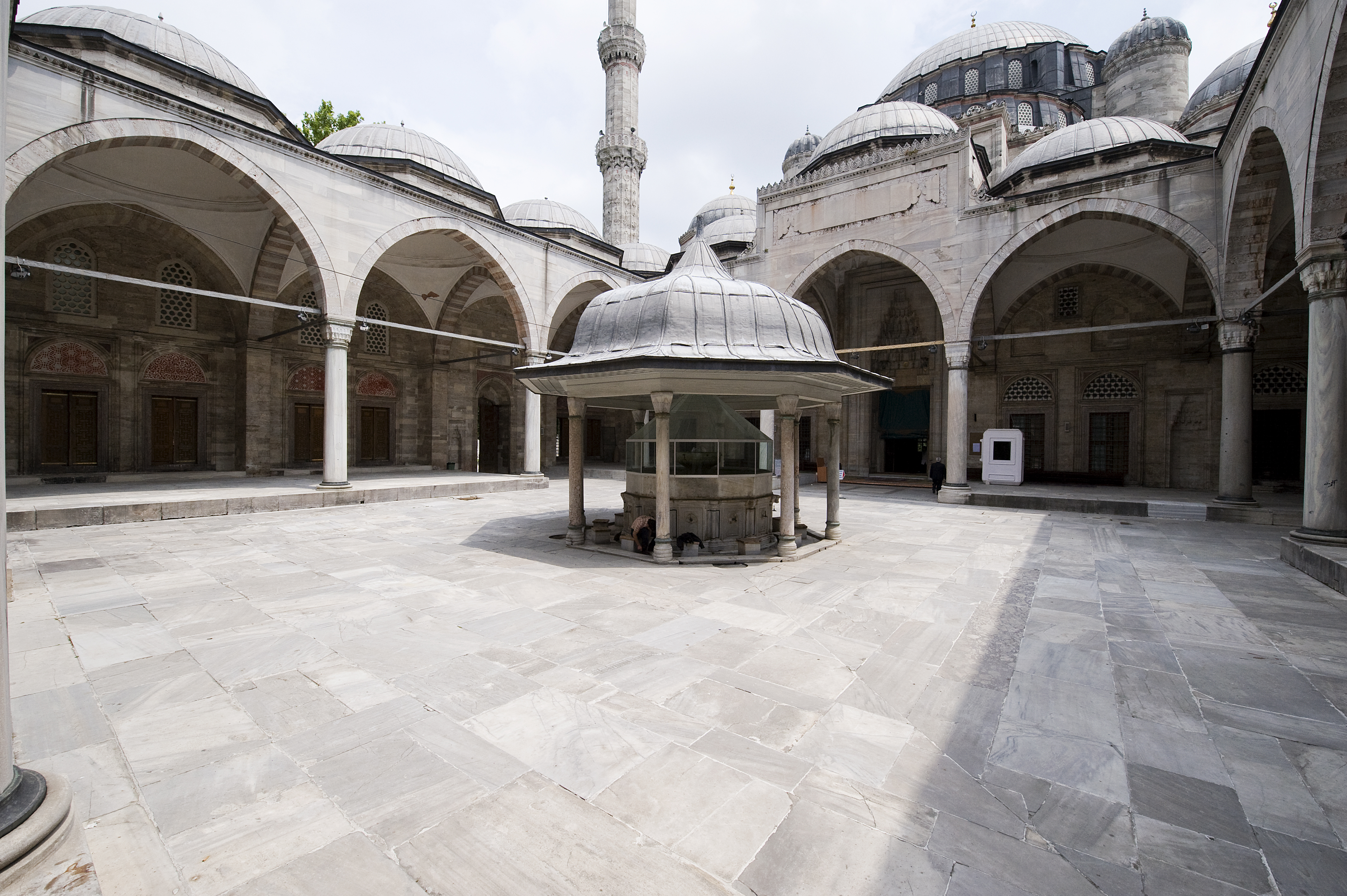 The ablutions fountain in the centre is said to be a contribution of Murat V (Source: Strolling through Istanbul, guidebook).